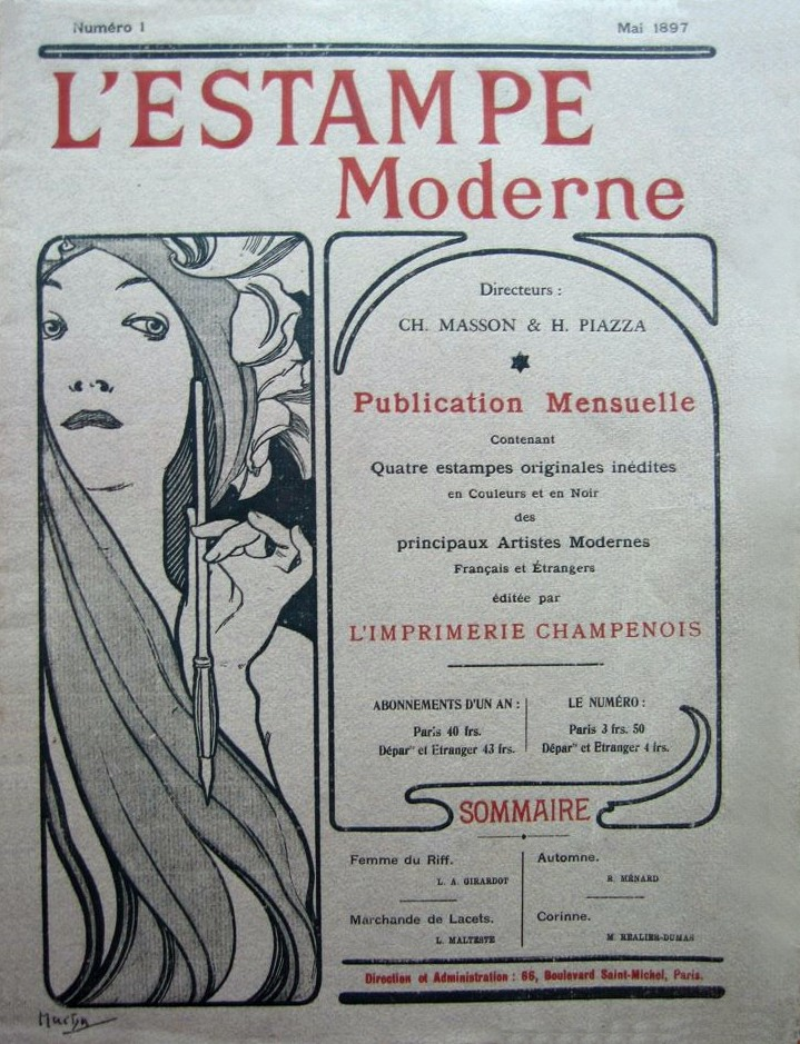 Cover of L'Estampe Moderne, issued in 24 monthly parts